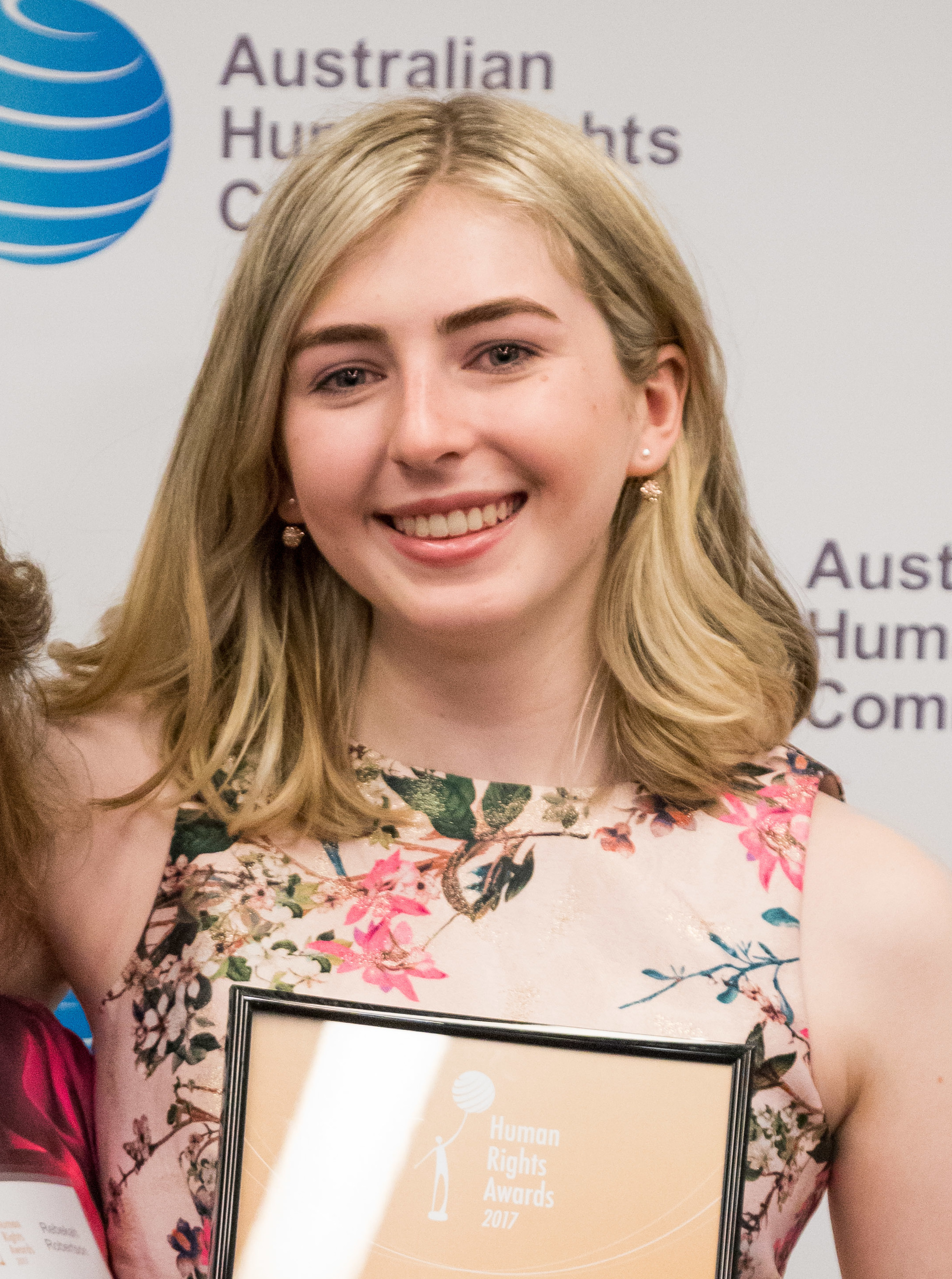 Morning tea - Human Rights Awards 2017